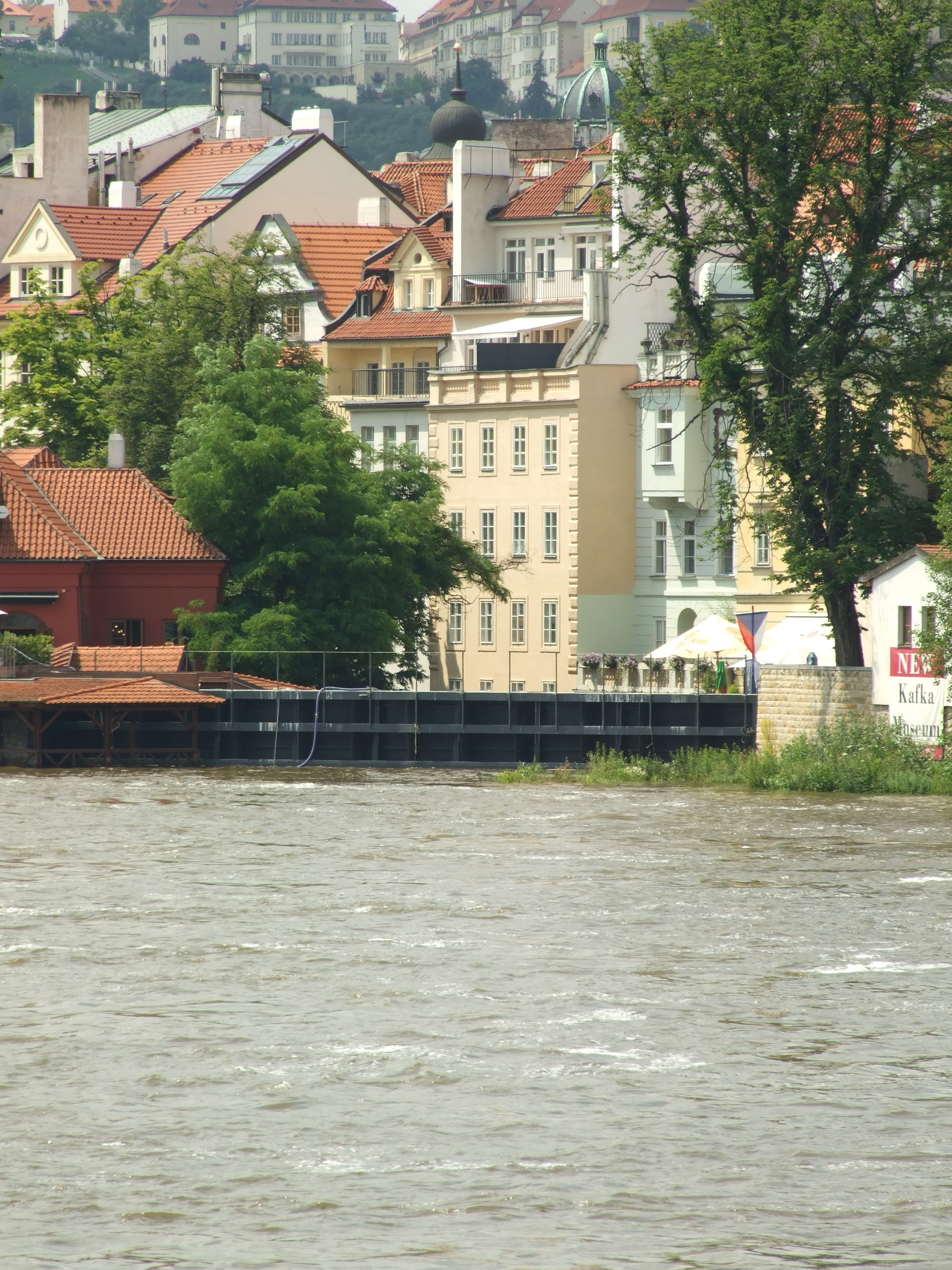 High water level of Vltava river in Prague. In late june 2009 several south-bohemian rivers, including Vltava, caused flooding of several villages and cities. As a result, water level of Vltava in Prague rose; emergency council was active for several days and Čertovka was closed. Prague, CZhelp